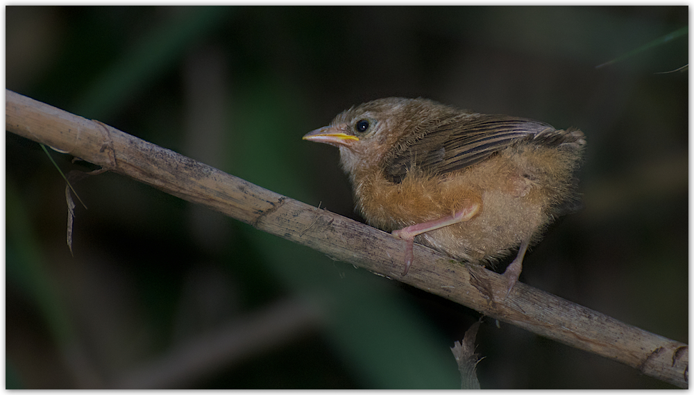 Tawny-bellied Babbler (Dumetia hyperythra) by Dharani Prakash